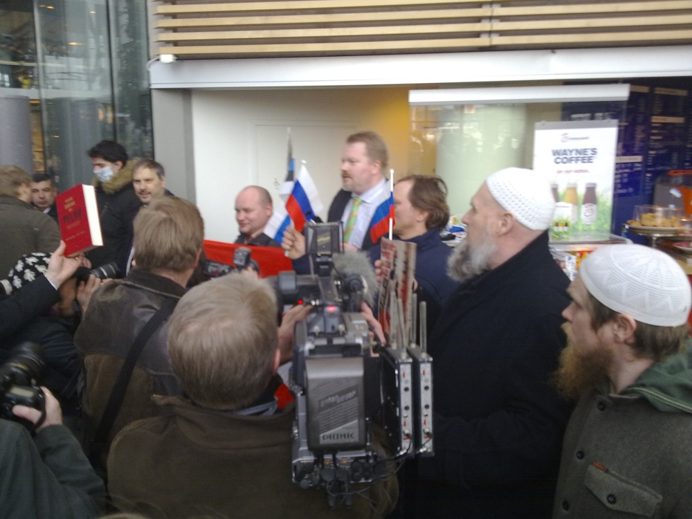 Nashi demonstration in Helsinki against Estonian-Finnish book-seminary in 2009. There were seven nashi-member, Johan Bäckman and Abdullah Tammi. Leena Hietanen is not in picture.